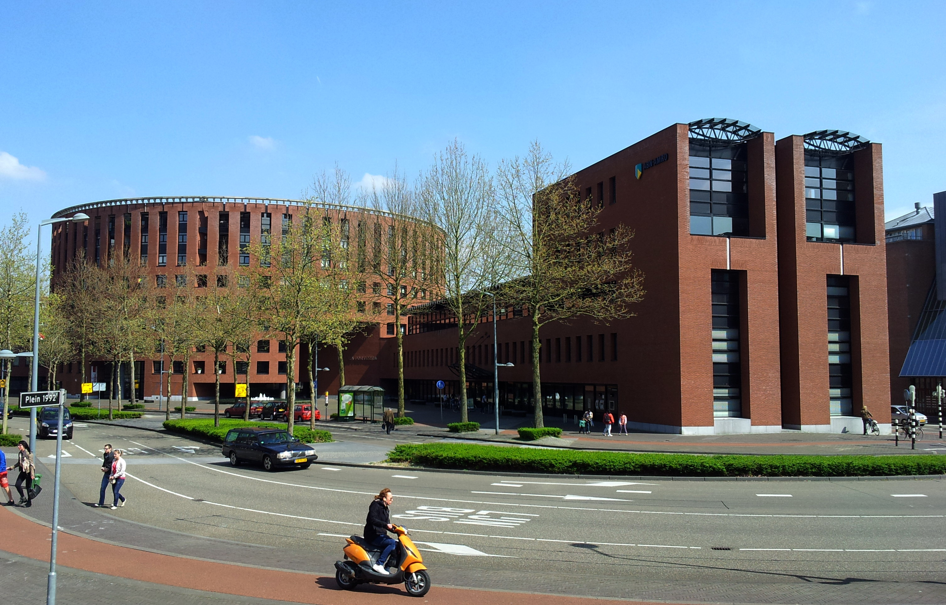 Maastricht, the Netherlands. View of La Fortezza, one of the buildings on Avenue Céramique, designed by Mario Botta